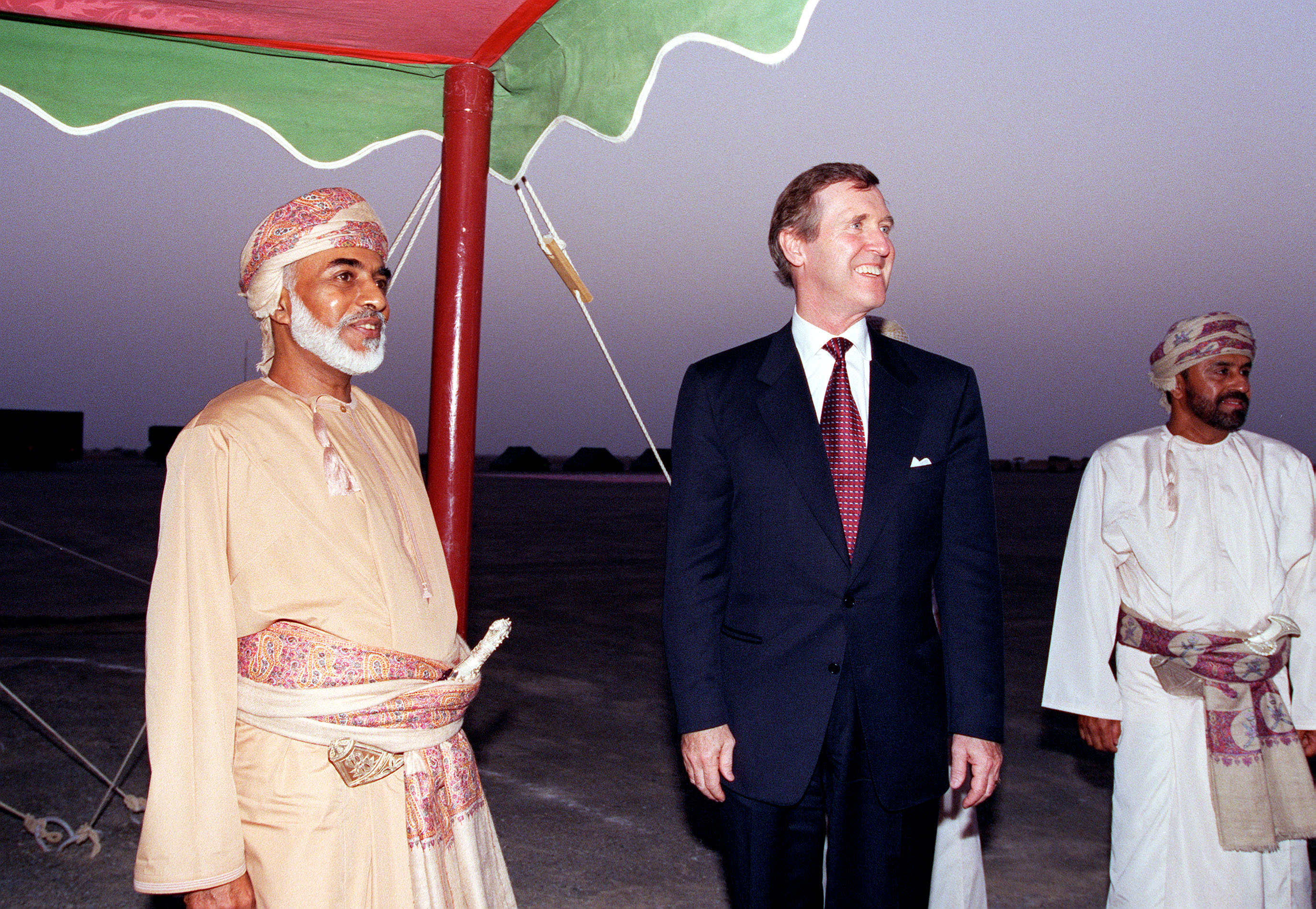 Sultan Qaboos bin Said (left), Secretary of Defense William S. Cohen (center), and Minister Responsible for Defense Affairs His Excellency Sayyid Badr bin Saíud bin Harib al-Busaíidi (right) await the American delegation at the Sultan's desert encampment near Sohar, Oman, on Oct. 11, 1998. Cohen is in the Persian Gulf region to visit with U.S. troops and heads of state in the Gulf countries.